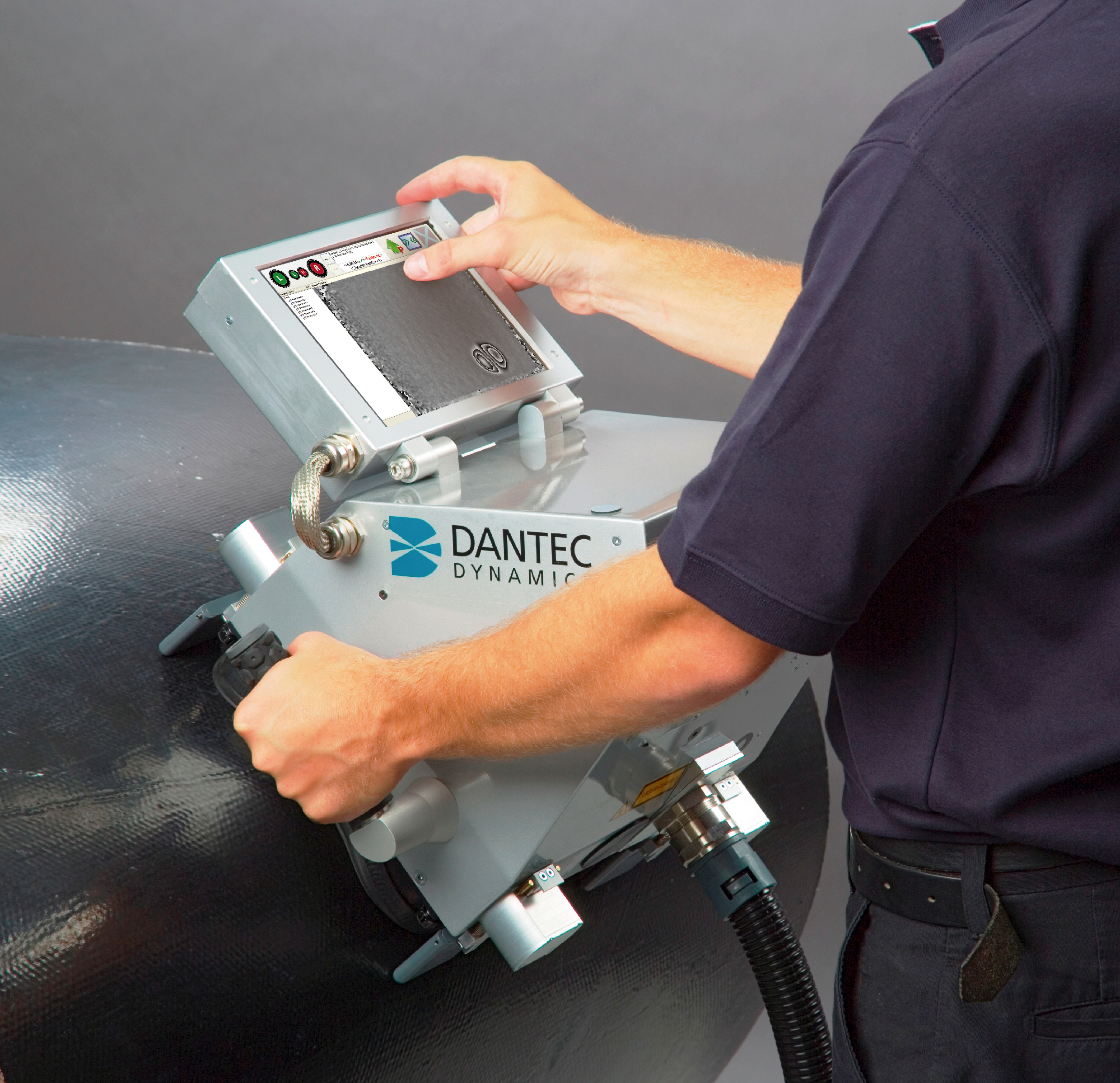 Usage of Vacuum Shearography